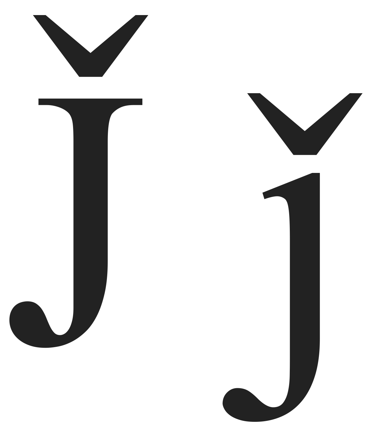 J with caron